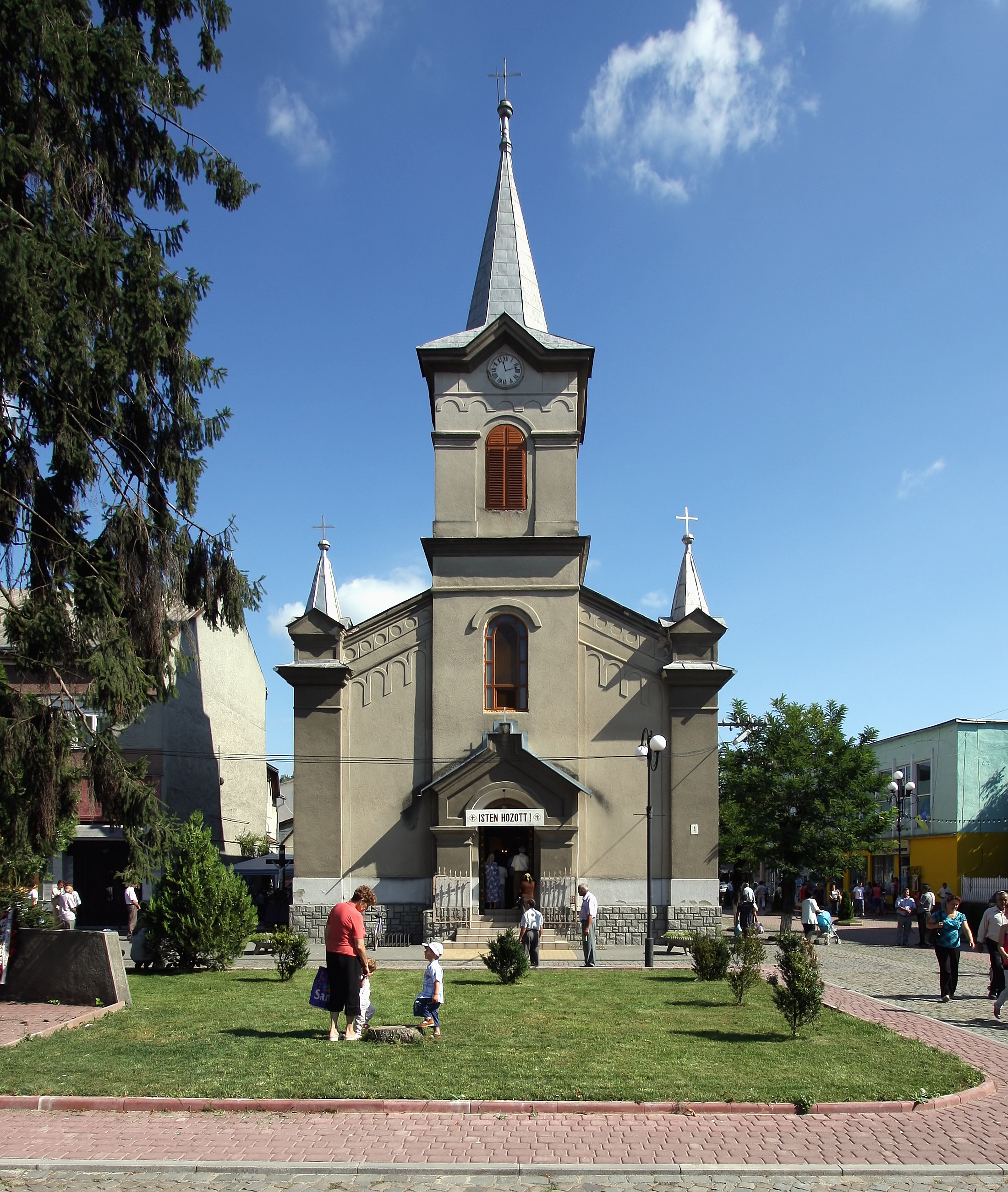 Saint Stephen church in the centre of Tiachiv, Tiachiv Raion, Zakarpattia Oblast, Ukraine